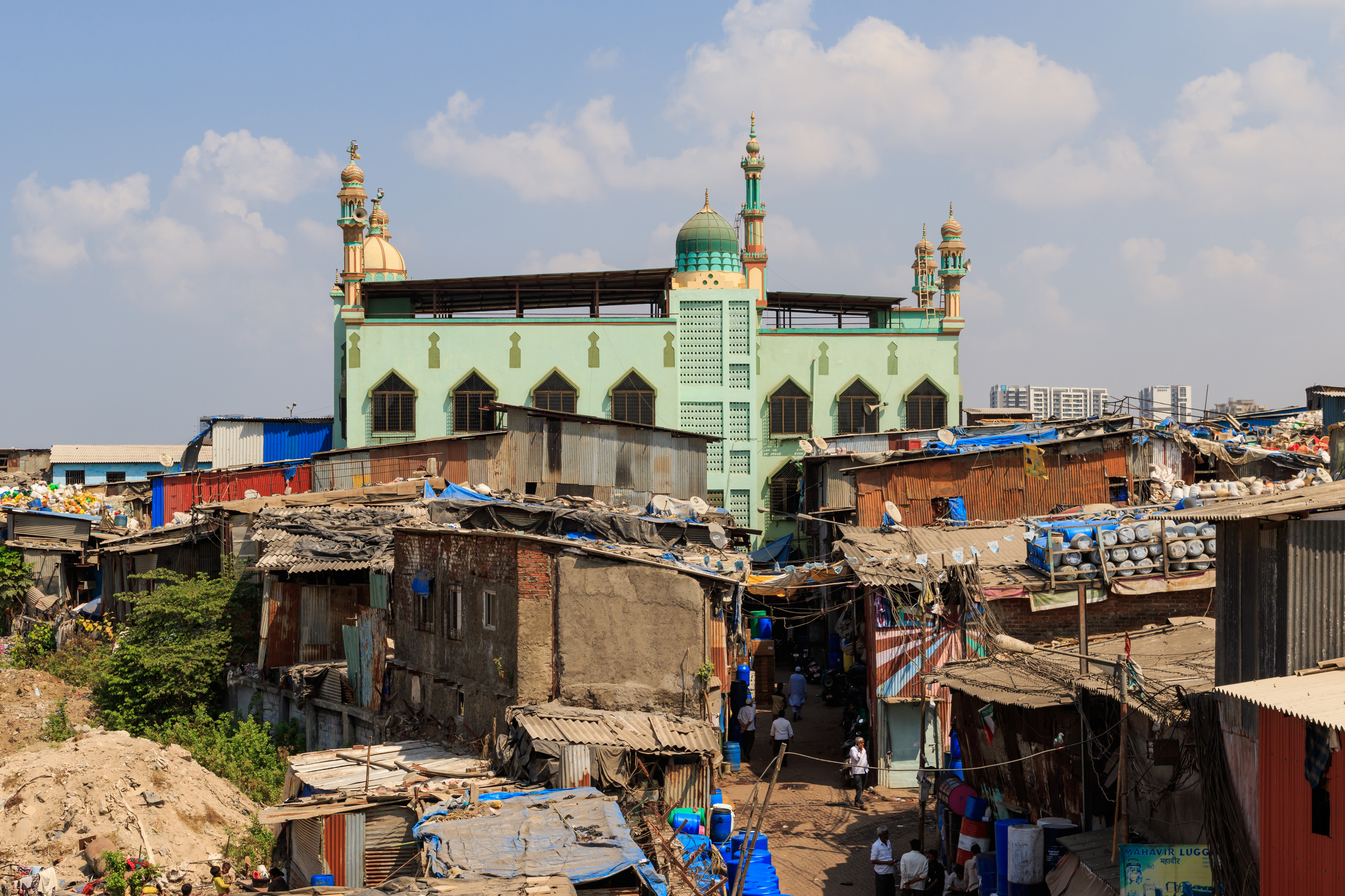 Dharavi settlement near Mahim Junction in Mumbai, India